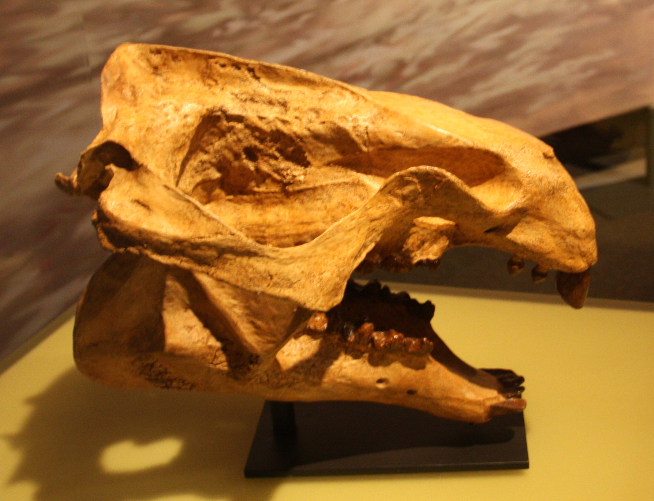 Skull of Moeritherium lysoni, in the Mammoths: Giants of the Ice Age exhibit at the Royal BC Museum, Victoria.